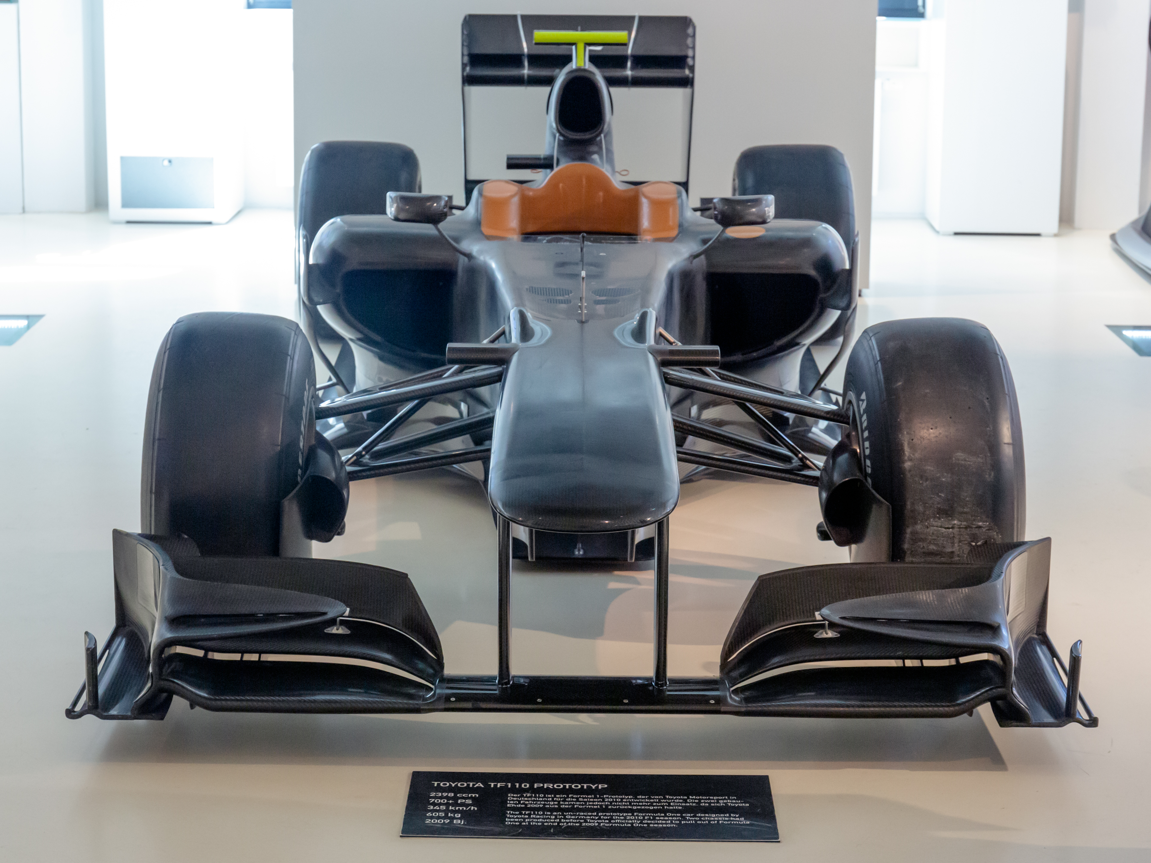 Prototyp Museum: 2010 Toyota TF110